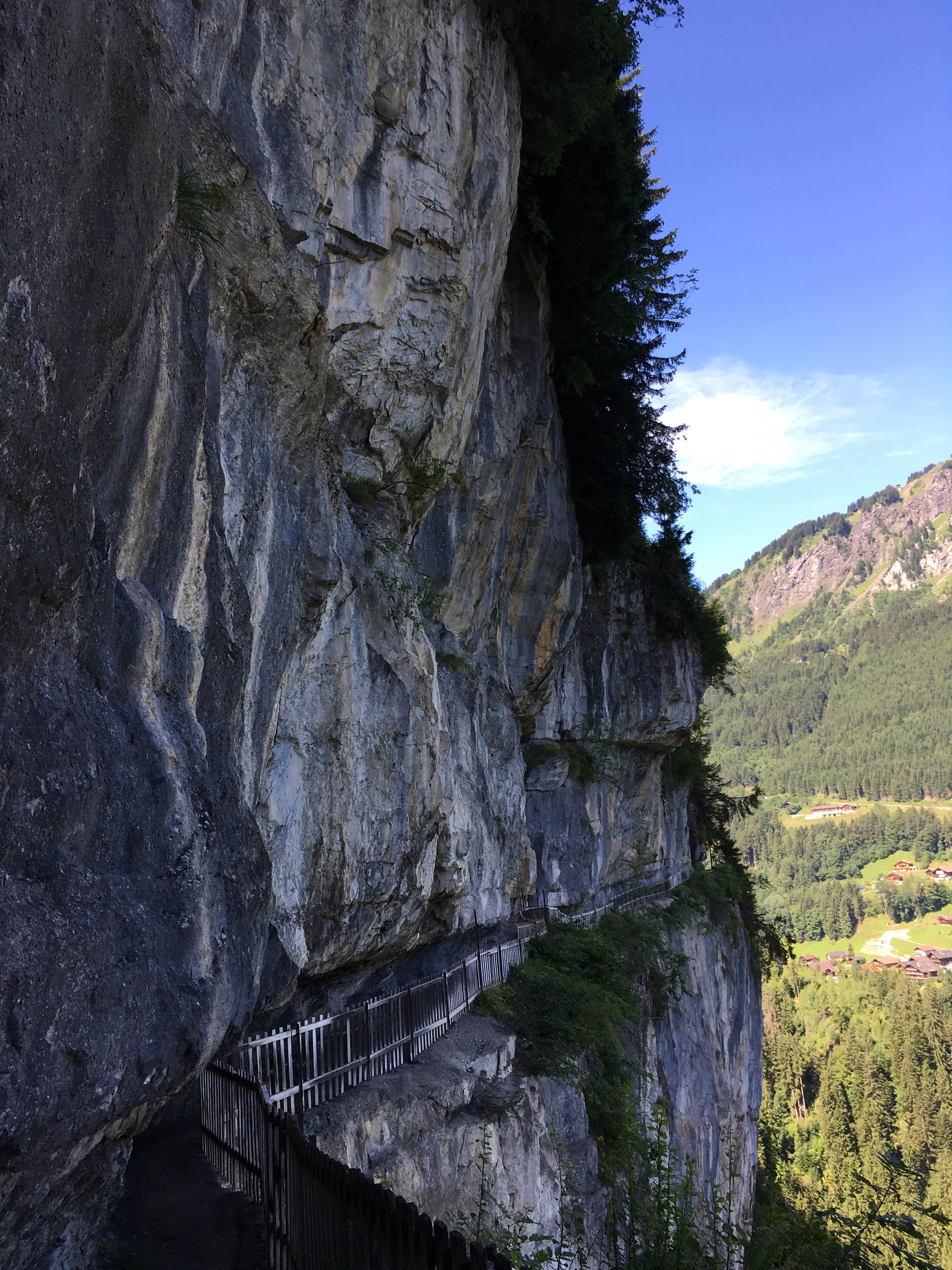 Champéry, Switzerland, the Galérie Défago footpath